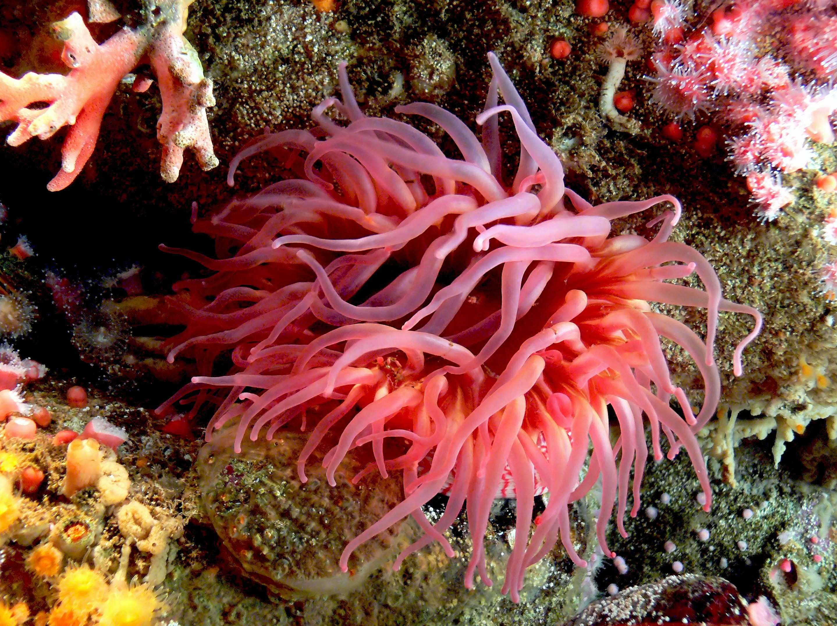 Sea anemones are a group of water-dwelling, predatory animals of the order Actiniaria. They are named for the anemone, a terrestrial flower. Sea anemones are classified in the phylum Cnidaria, class Anthozoa, subclass Hexacorallia. [1] Anthozoa often have large polyps that allow for digestion of larger prey and also lack a medusa stage.[2] As cnidarians, sea anemones are related to corals, jellyfish, tube-dwelling anemones, and Hydra.